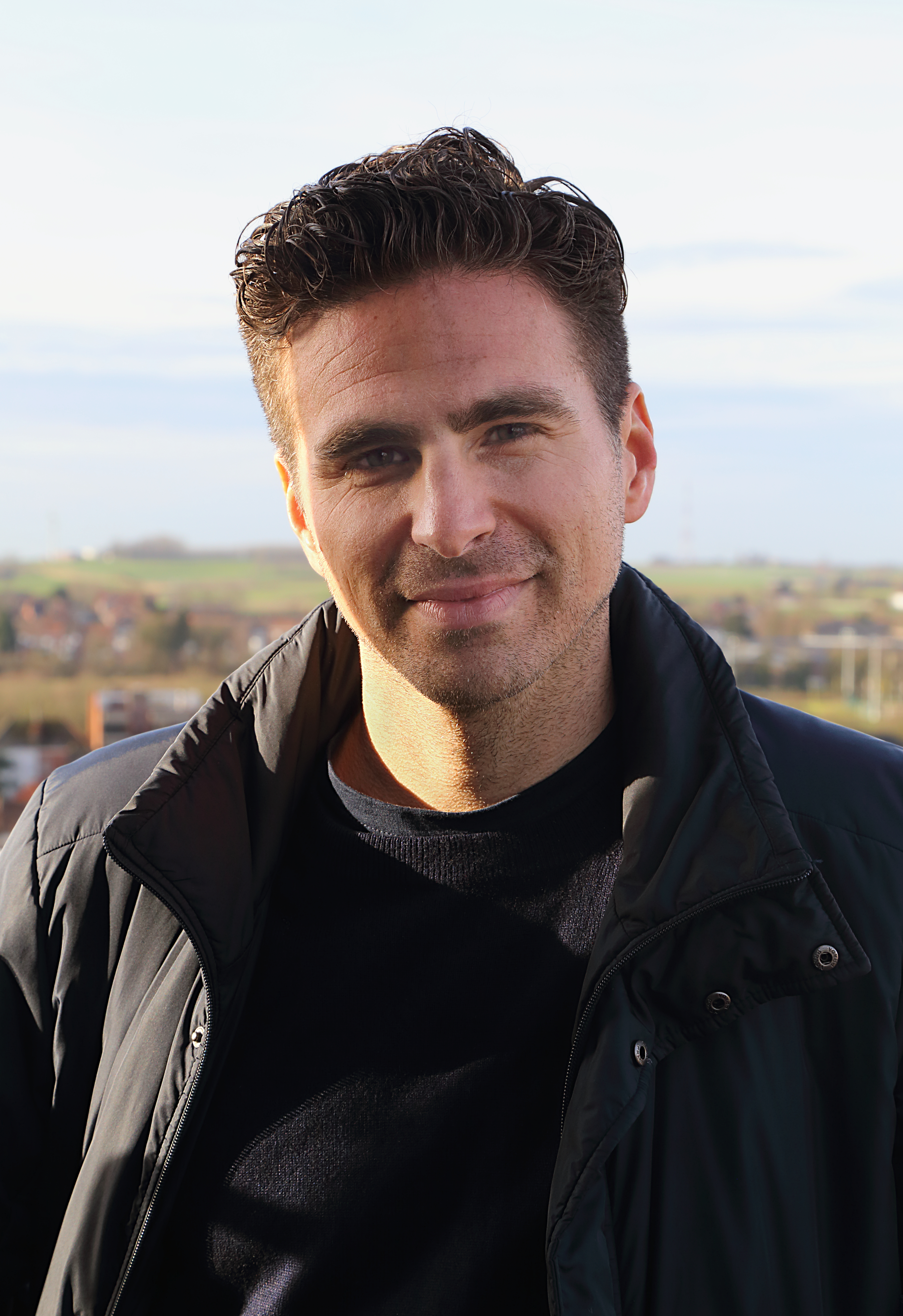 Andrea Pallaoro, Italian theatre director, screenwriter and film director. Picture taken in Tournai (on top of the belfry), Belgium.